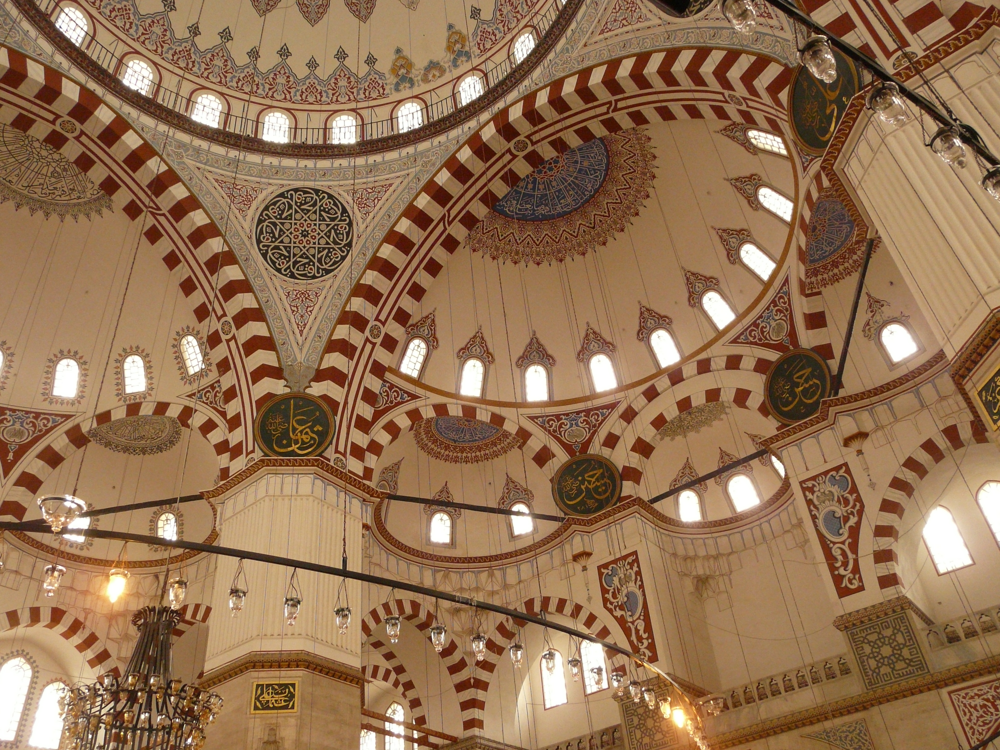 Interior of Sehzade mosque, Istanbul